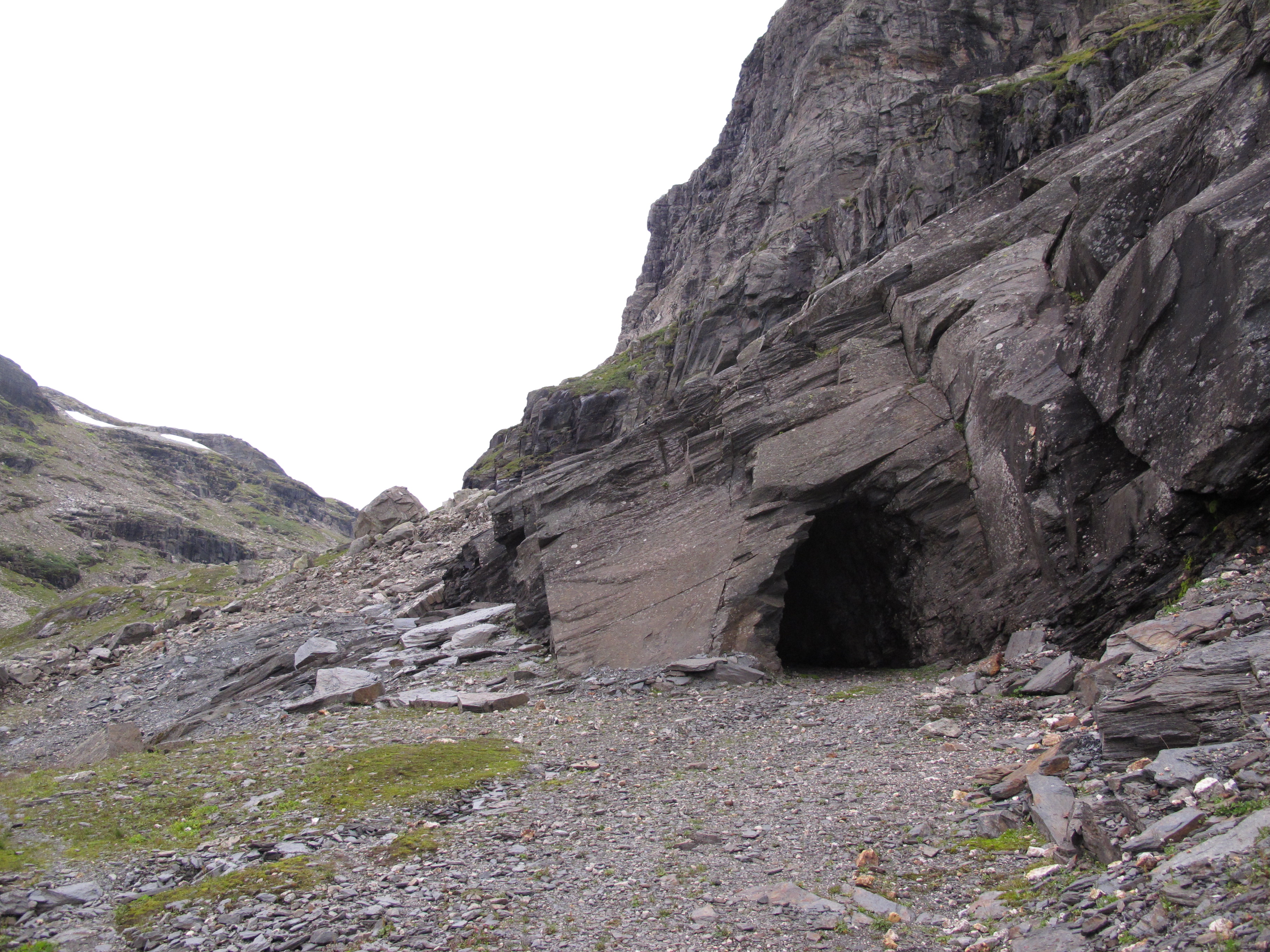 Entrance to the oldest road tunnel at Dyrskar on the Haukeli Mountain Plateau. It is carved into loose rocks and has partially collapsed several places. It is about 60 meters long. This is the northern/north easter entrance, for traffic going in a westerly direction. This has later been replaced by a road without tunnels, and then again by a long tunnell under the whole area in 1968.